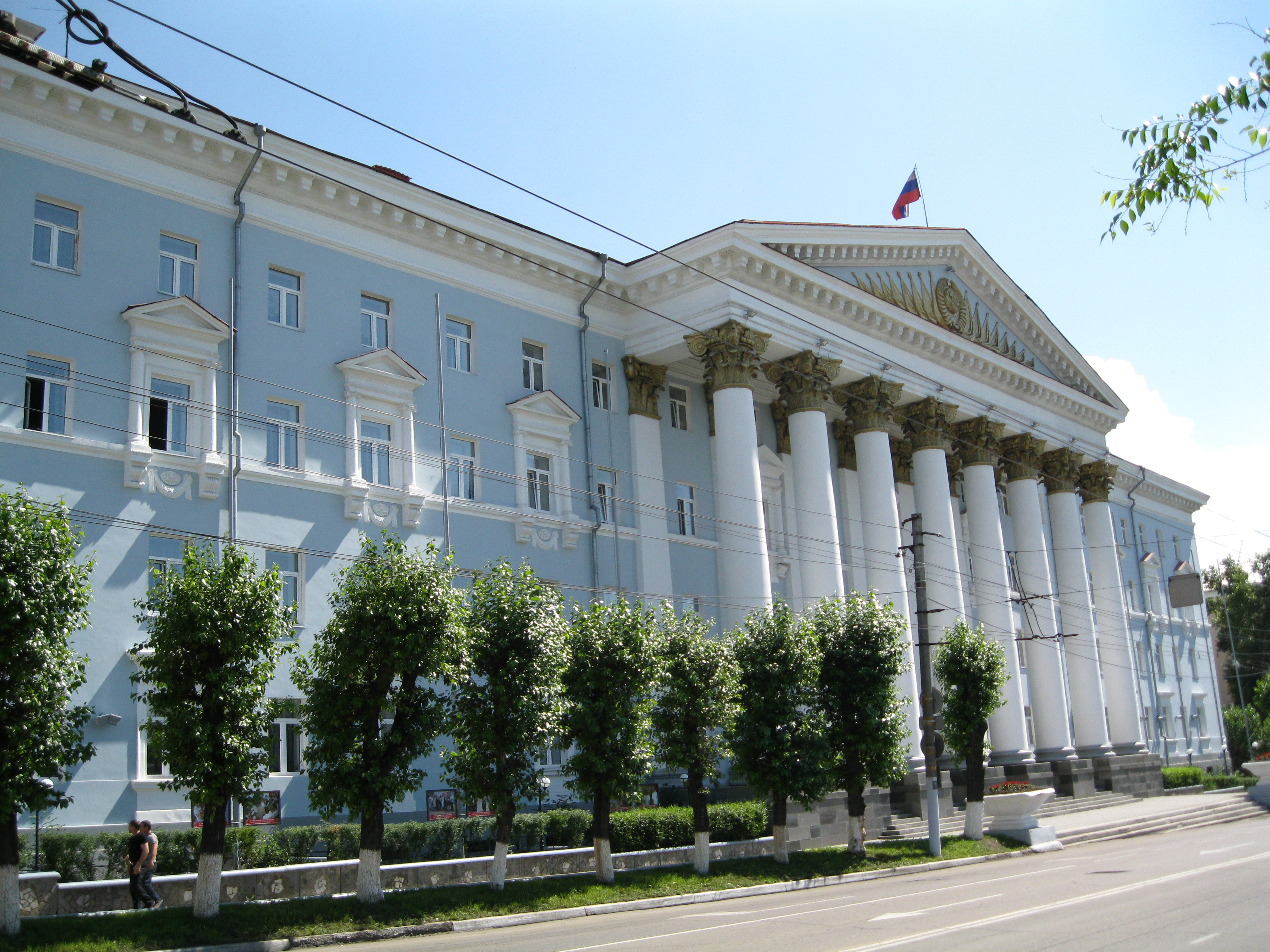 Zabaykalskaya railway building in Chita, Russia